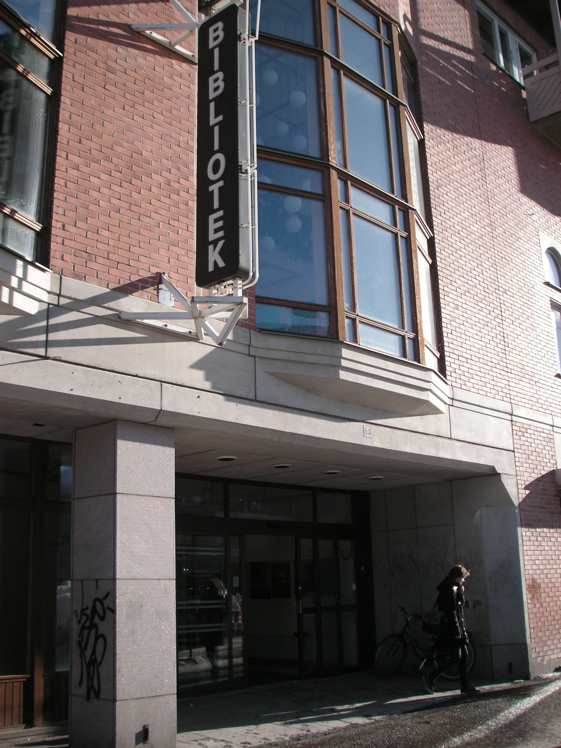 Umeå Public Library, Sweden.